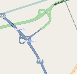 OSM_dubbel_trompetknooppunt.png